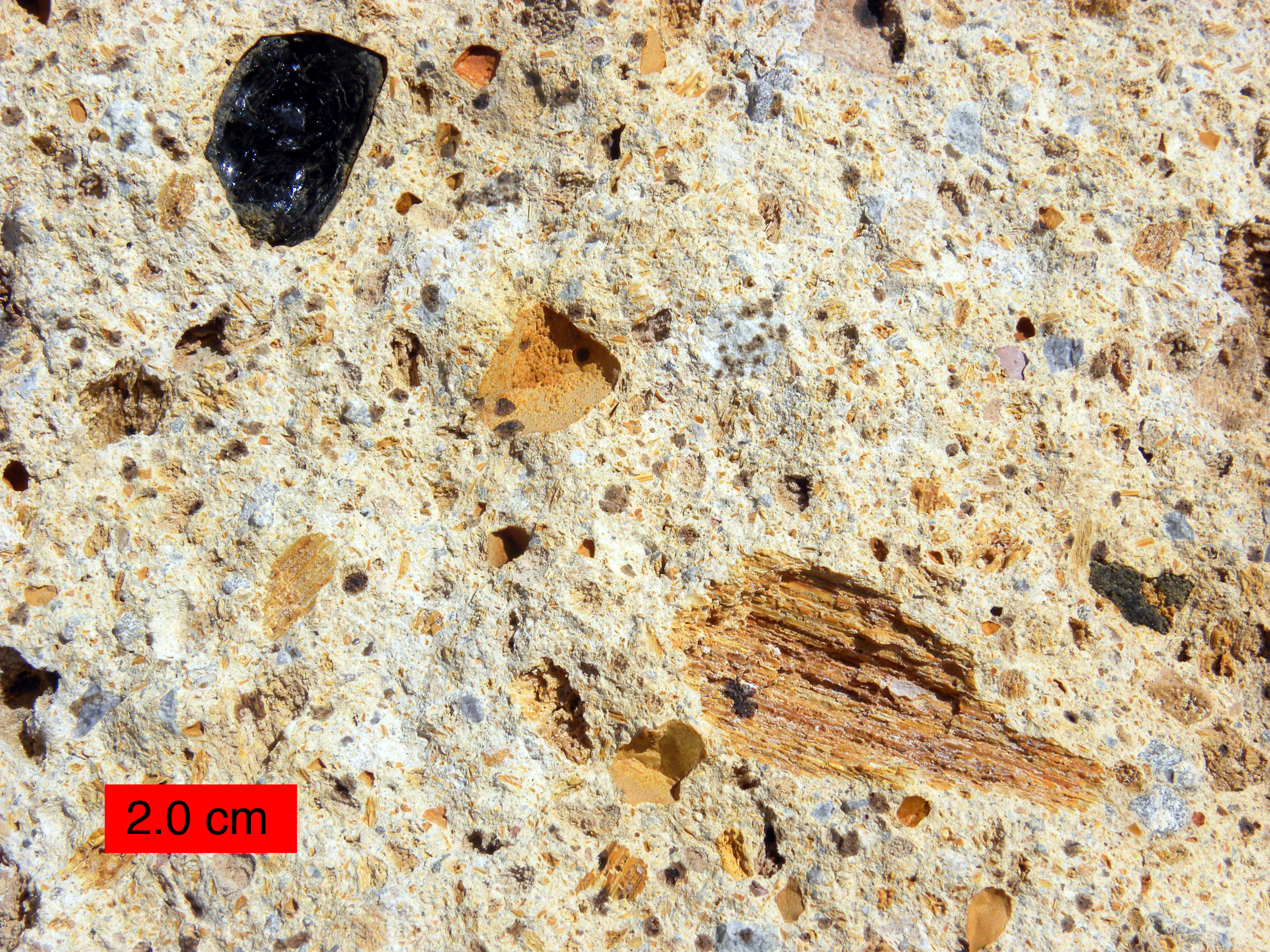 Tuff (rock) exposed at Hole In The Wall, California.